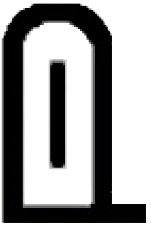 Natural Disaster Monument, Map symbols of Japan. Based on Geospatial Information Authority of Japan